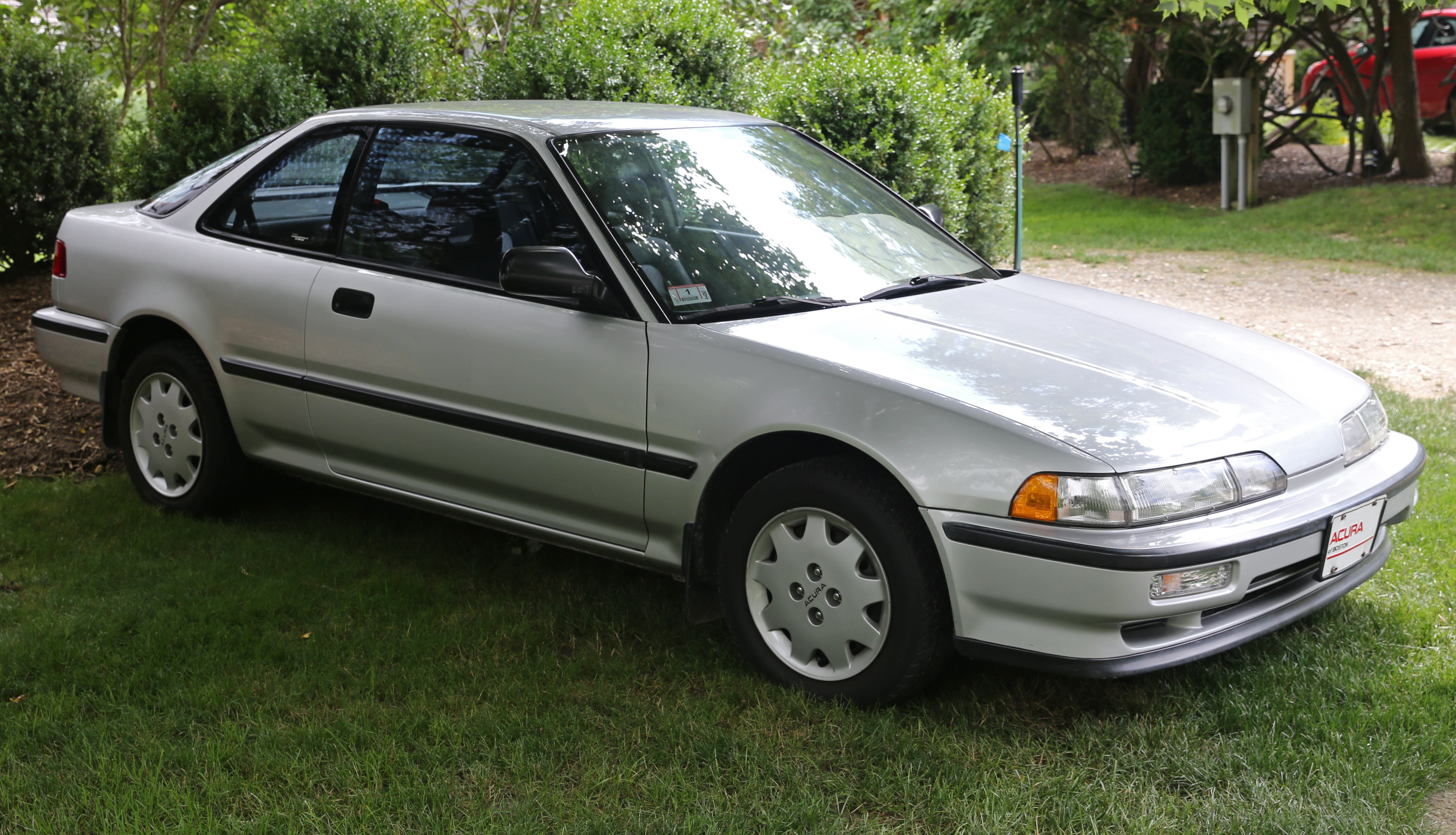 1990-1991 Acura Integra RS three-door hatchback coupé. Lovely original condition, already sold if anyone wonders.